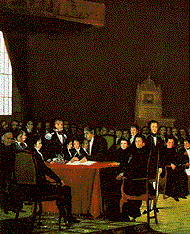 Sketch of the painting about the Declaration of Independence in Venezuela by painter Juan Lovera.